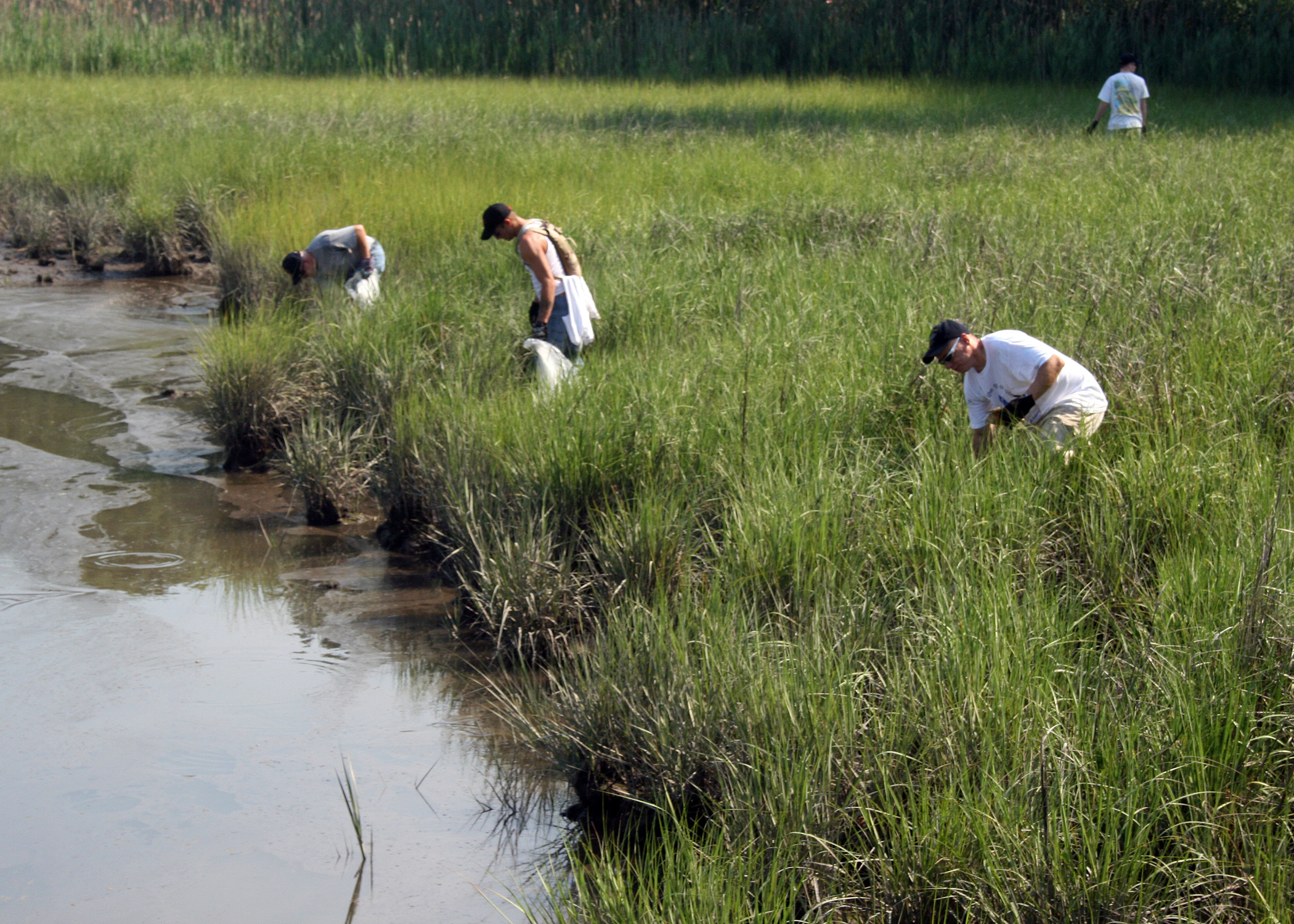 PORTSMOUTH, Va. (June 7, 2008) Sailors assigned to the amphibious assault ship USS Wasp (LHD 1) look for trash on the shore of the Chesapeake Bay during Clean The Bay Day. The annual conservation event helps keep the Chesapeake Bay cleaner through proactive measures. U.S. Navy photo by Chief Mass Communication Specialist Craig P. Strawser (Released)